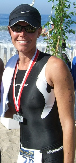 Tammy Leitner at the 2006 Malibu Triathlon